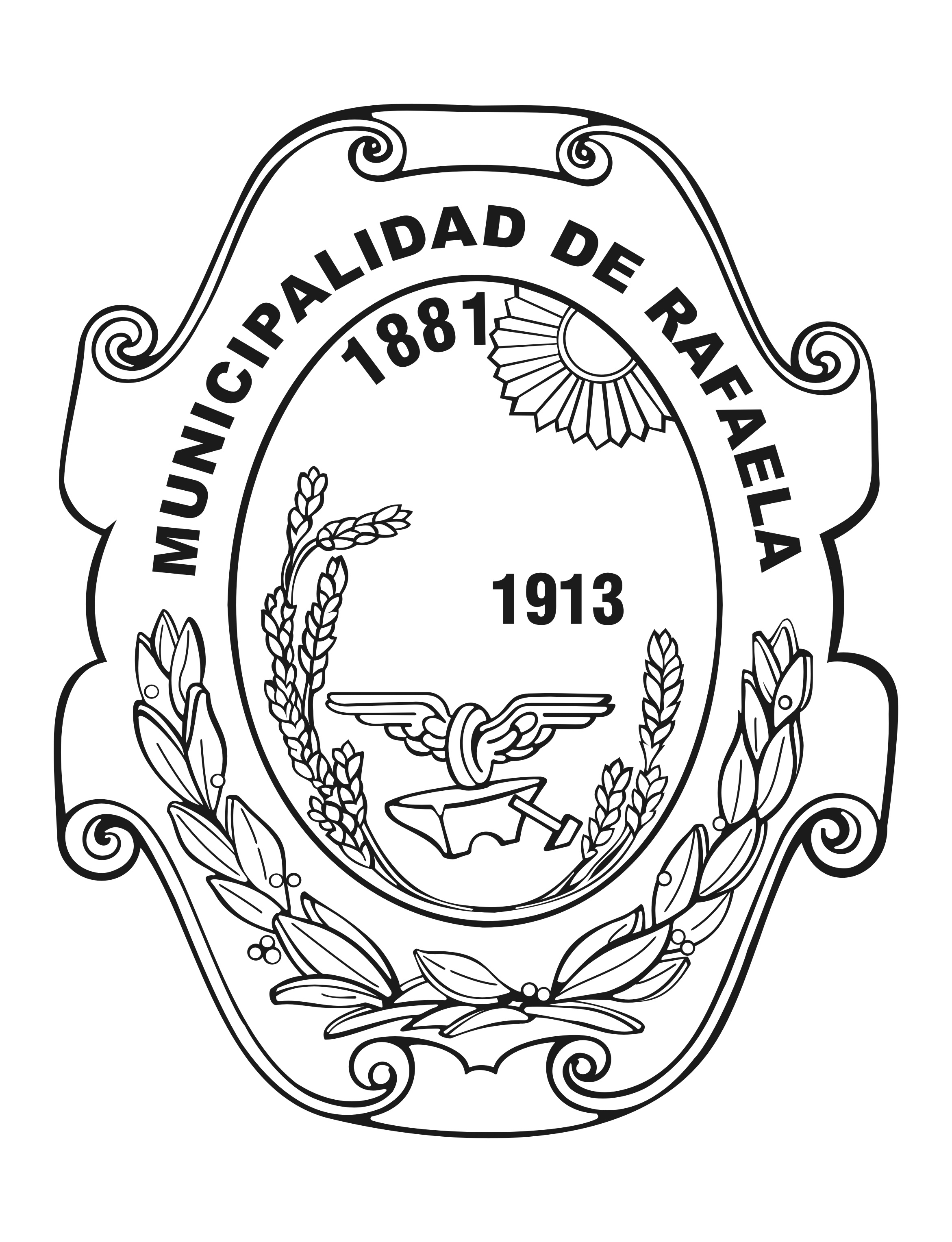 Coat of arms currently in use by the Municipality of Rafaela.